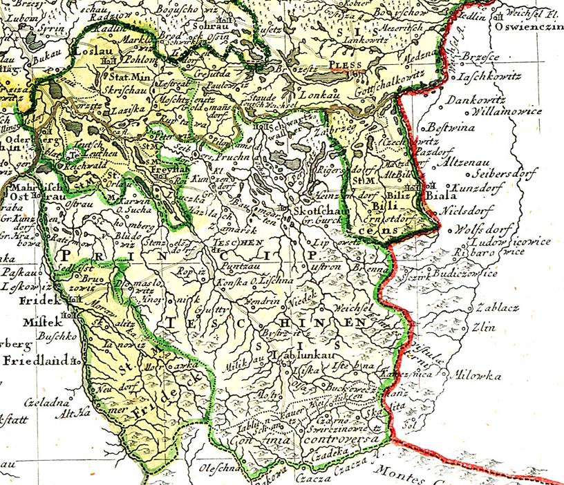 Duchy of Teschen in Upper Silesia, map of 1746